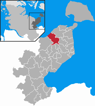 This map shows the area of the Stadt (town) Oldenburg in Holstein in the Kreis (district) Ostholstein, Schleswig-Holstein, Germany.